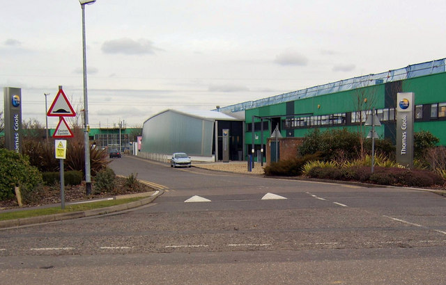 The Thomas Cook Business Park, Peterborough. Looking NE into Coningsby Road from Stirling Way. Most of the buildings surrounding Coningsby Road (really a square) belong to travel company Thomas Cook UK. The curved glass extension, centre, is the atrium of the company's main office. Roof repairs were underway at the time of this photograph.